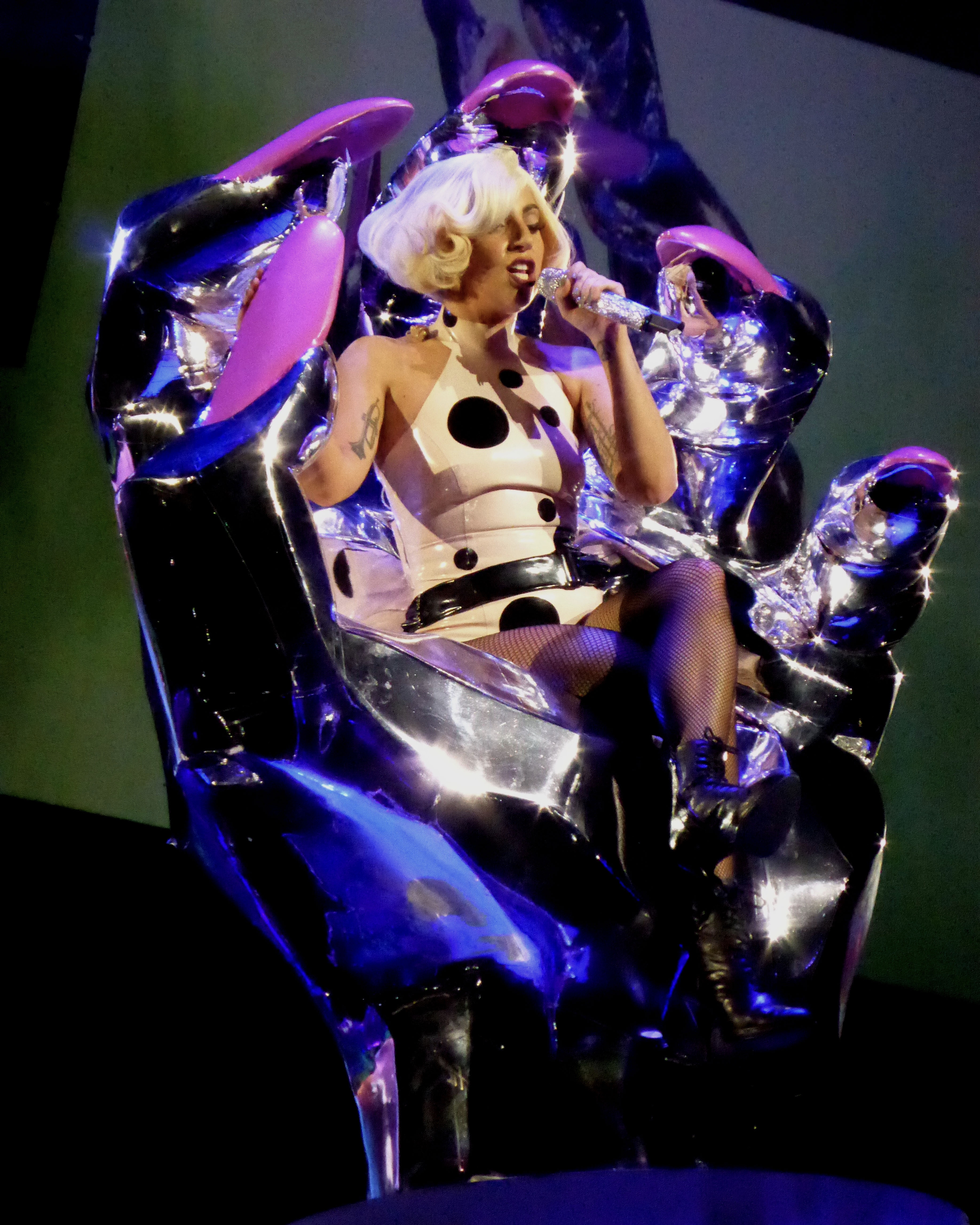 Lady Gagaperforming "Do What U Want" during ArtRave: The Artpop Ball Tour.